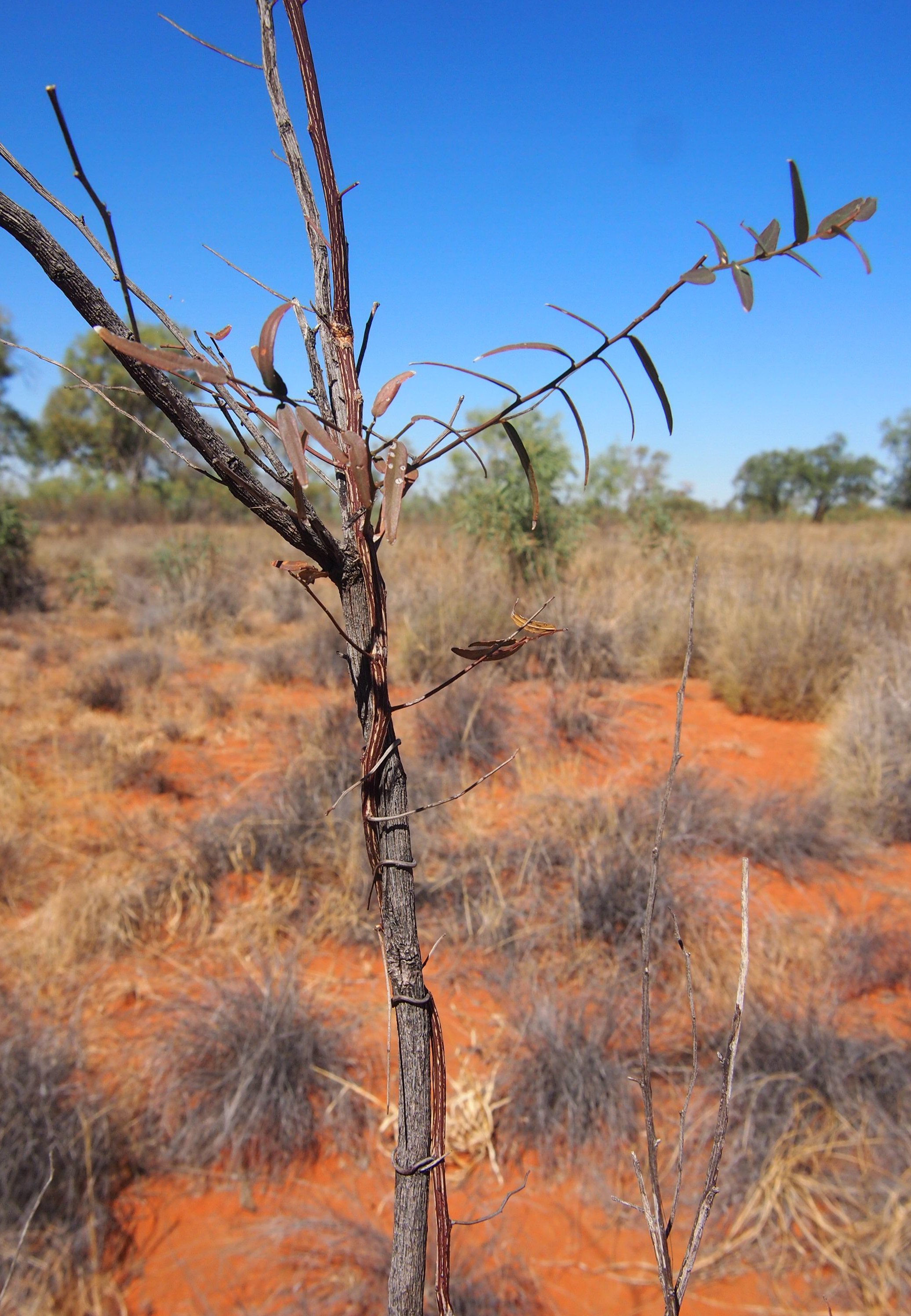 Ventilago viminalis seedling showing the vine life form of the early life stage.